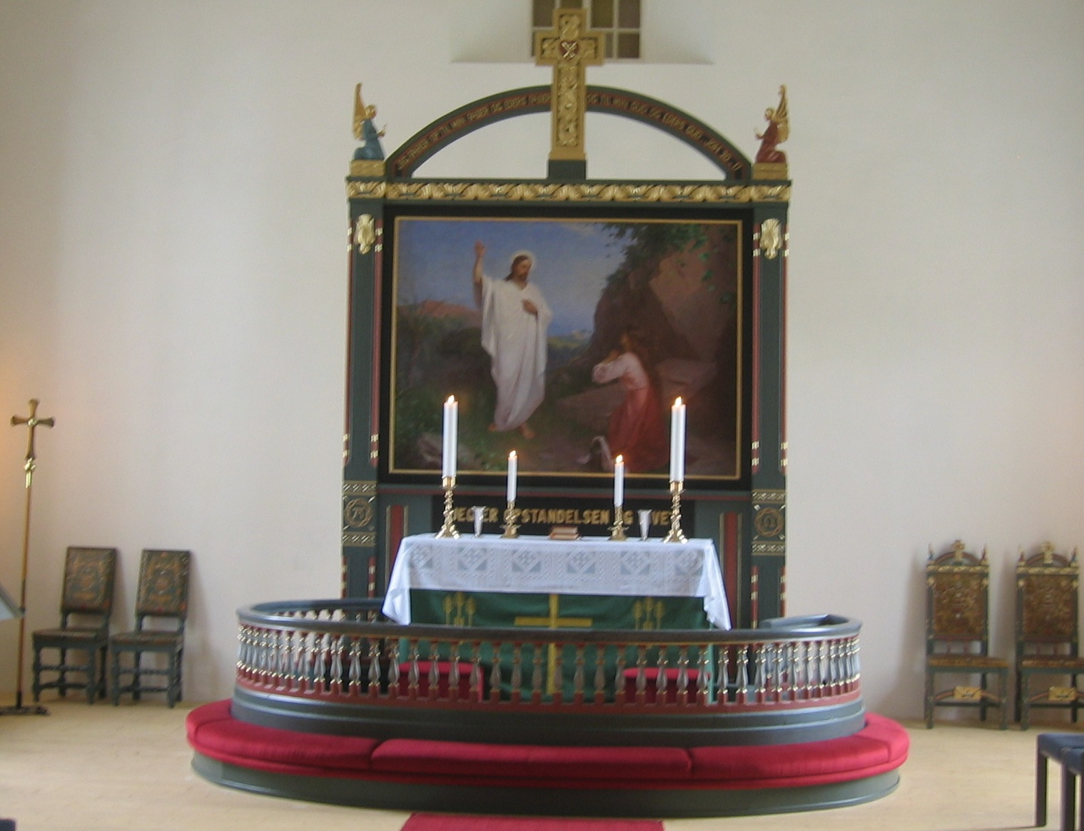 Altar of Brønnøy church, Norway